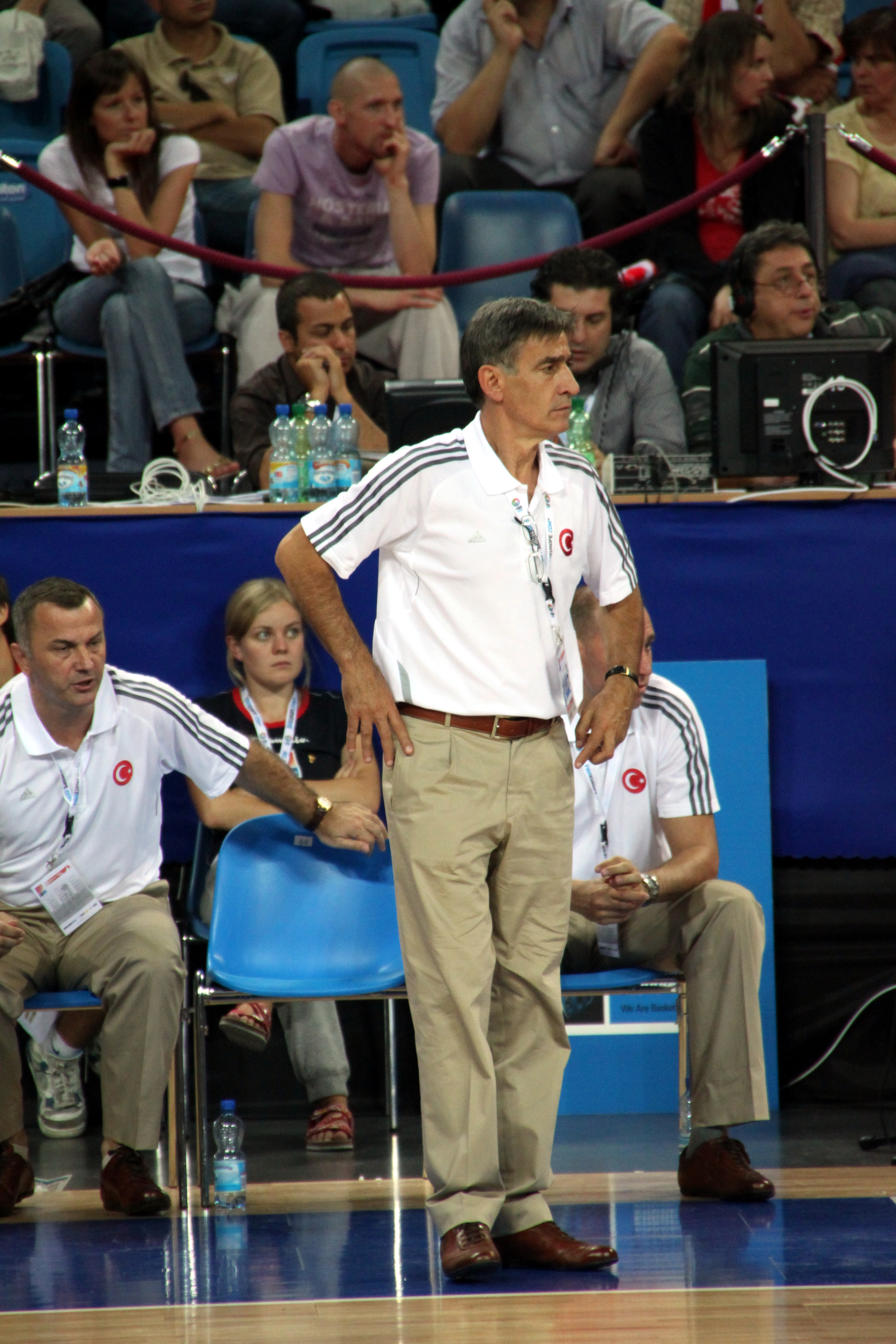 Turkey Head Coach Bogdan Tanjevic... (Bulgaria - Turkey 66-94, Eurobasket 2009)